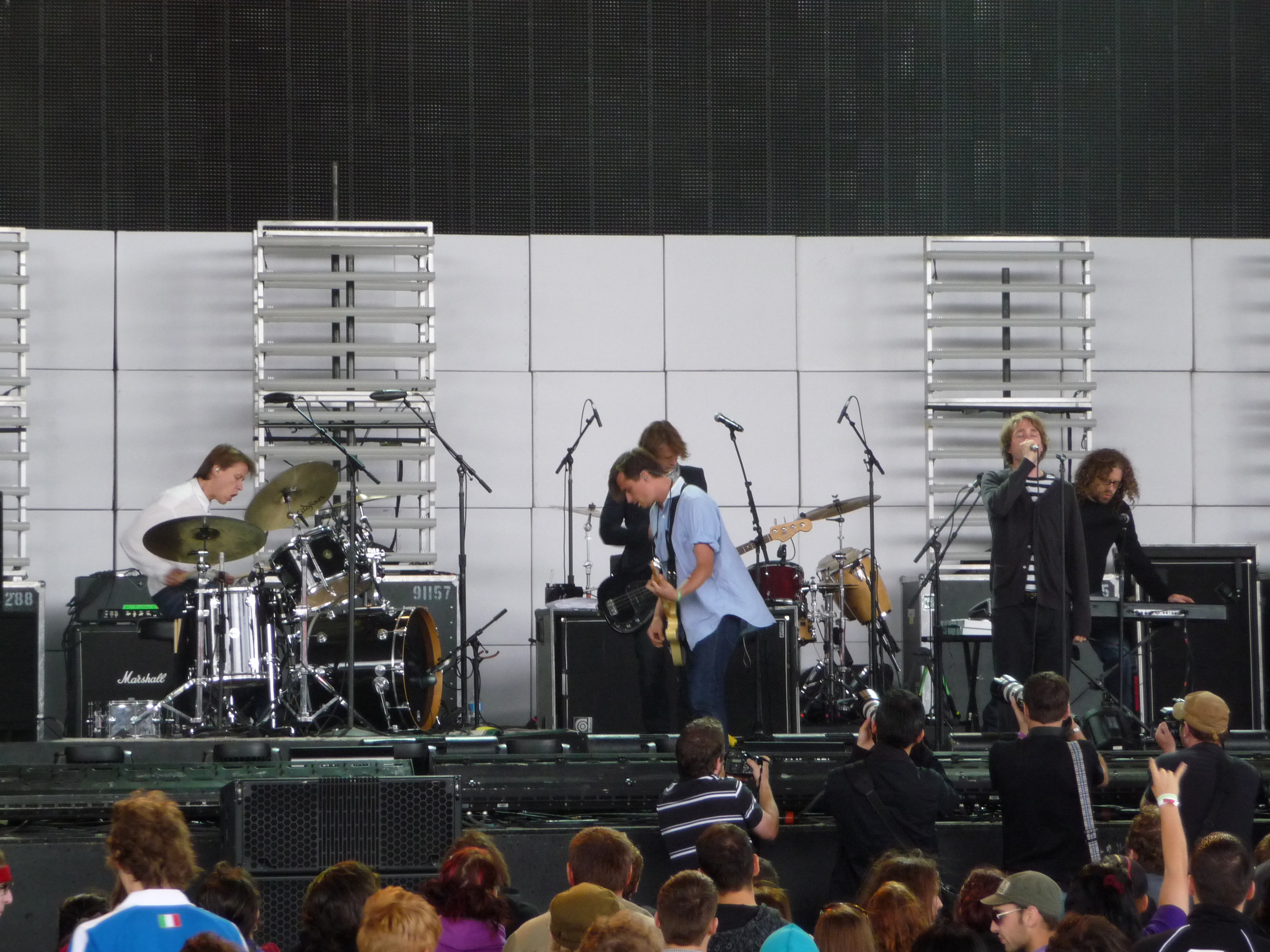 Mew performing at Virgin Festival Ontario day 2 2009